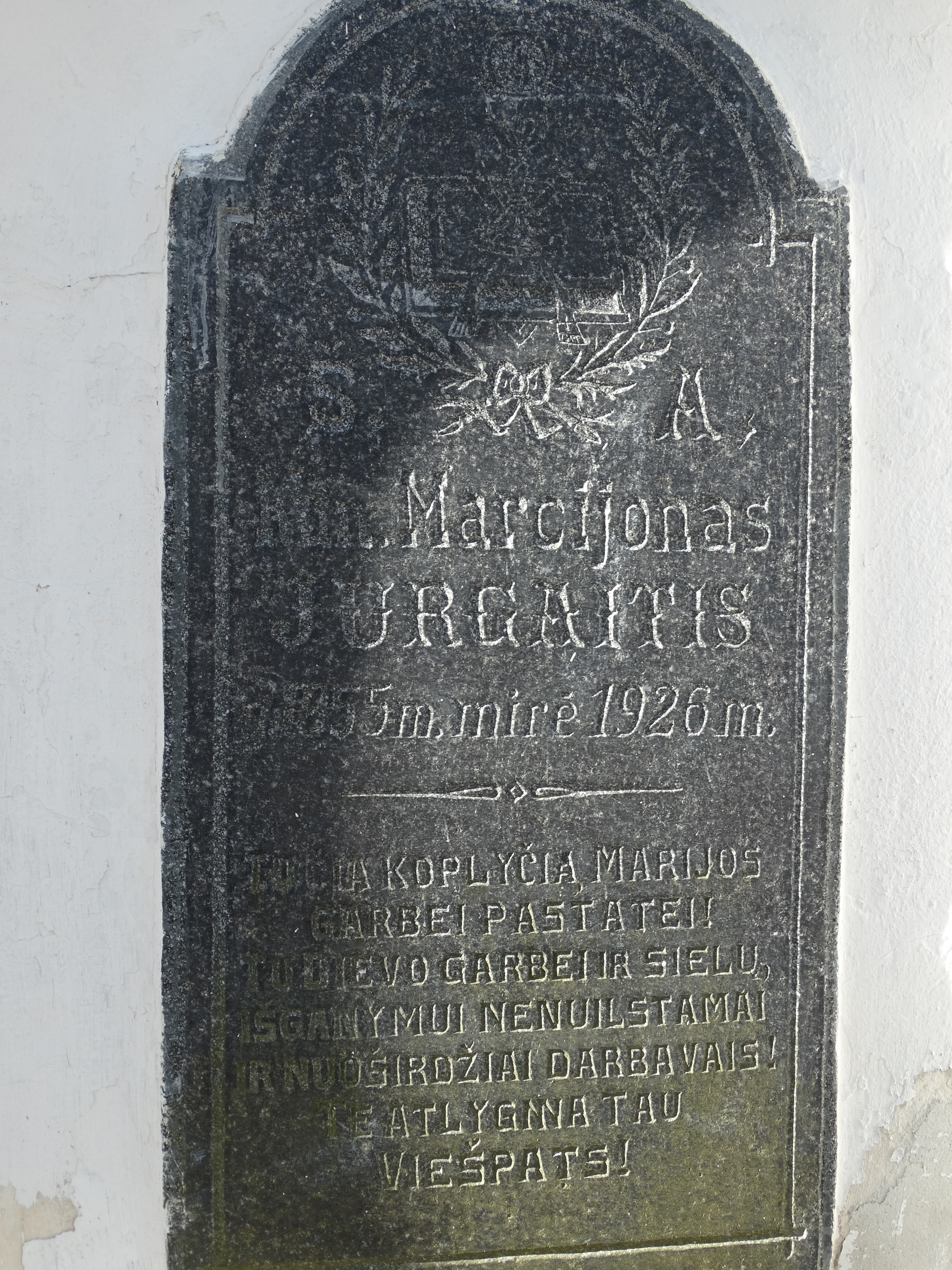 Wall of burial crypts, Šiluva chapel, Raseiniai district, Lithuania